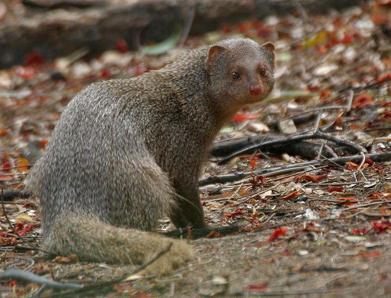 Description corrected as Indian gray mongoose or common grey mongoose, Herpestes edwardsii, in Hyderabad, India.